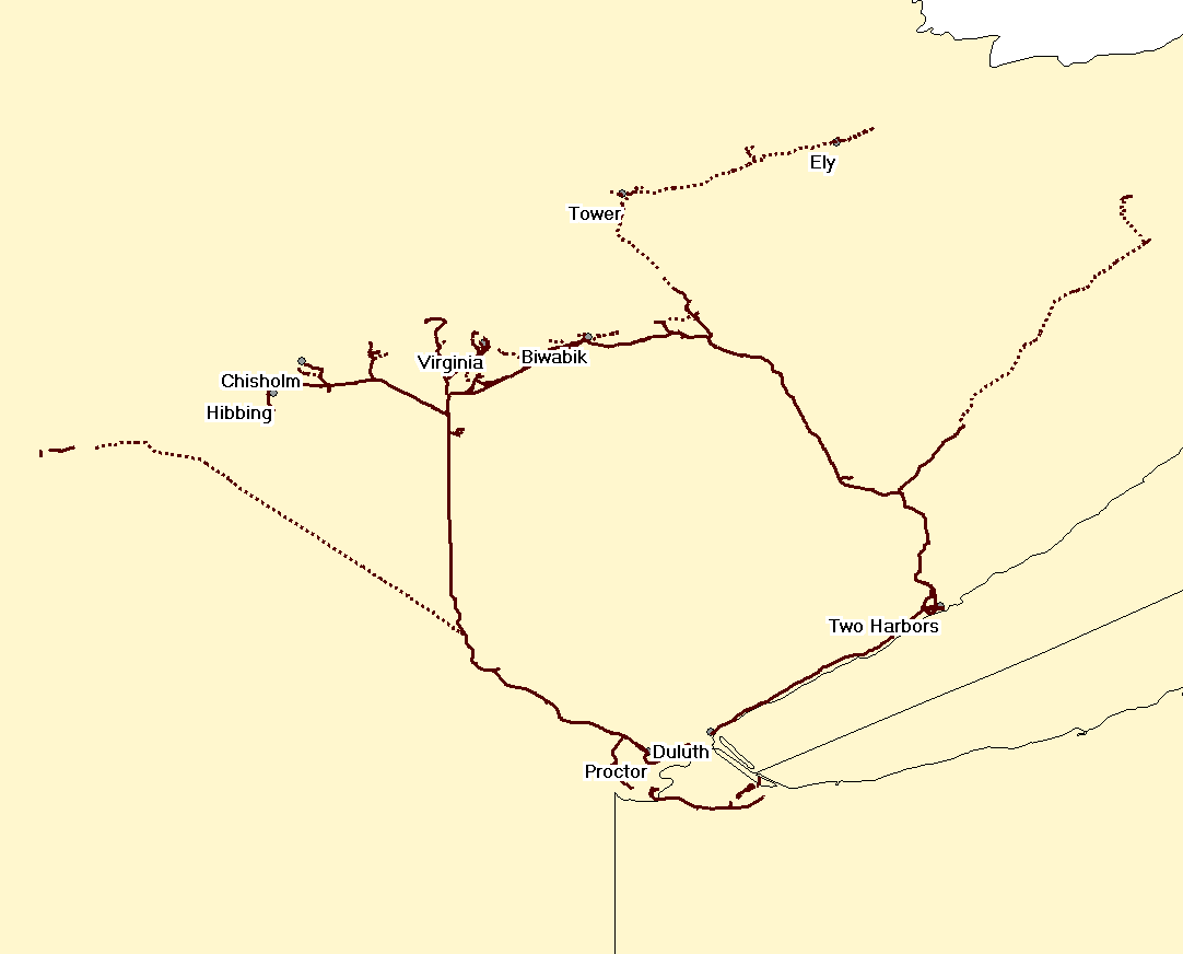 Map of the Duluth, Missabe and Iron Range Railway. Solid lines are tracks still in use; dotted lines are abandoned. The section from Two Harbors to Duluth is effectively operated by the North Shore Scenic Railroad although the DMIR (now CN) retain the exclusive right (unexercised) to operate freight traffic.